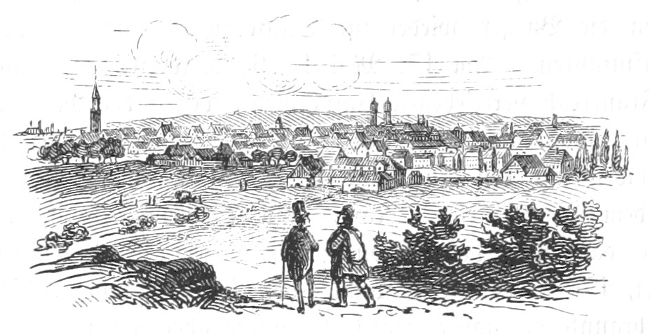 Image extracted from page 718 of above (page number relates to the digital version and can differ from the pagination within the book). Original held and digitised by the British Library. Note: The colours, contrast and appearance of these illustrations are unlikely to be true to life. They are derived from scanned images that have been enhanced for machine interpretation and have been altered from their originals.